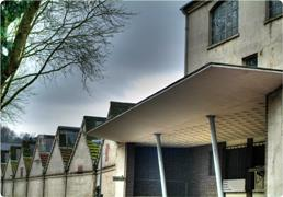 The picture shows the "Scheidt’sche_Tuchfabrik" in Essen.